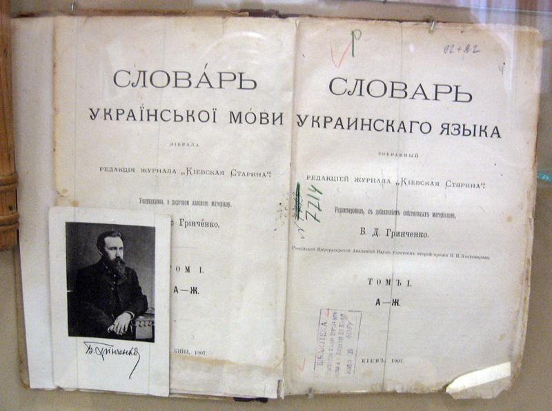 Dictionary of Ukrainian language by Grinchenko, 1909